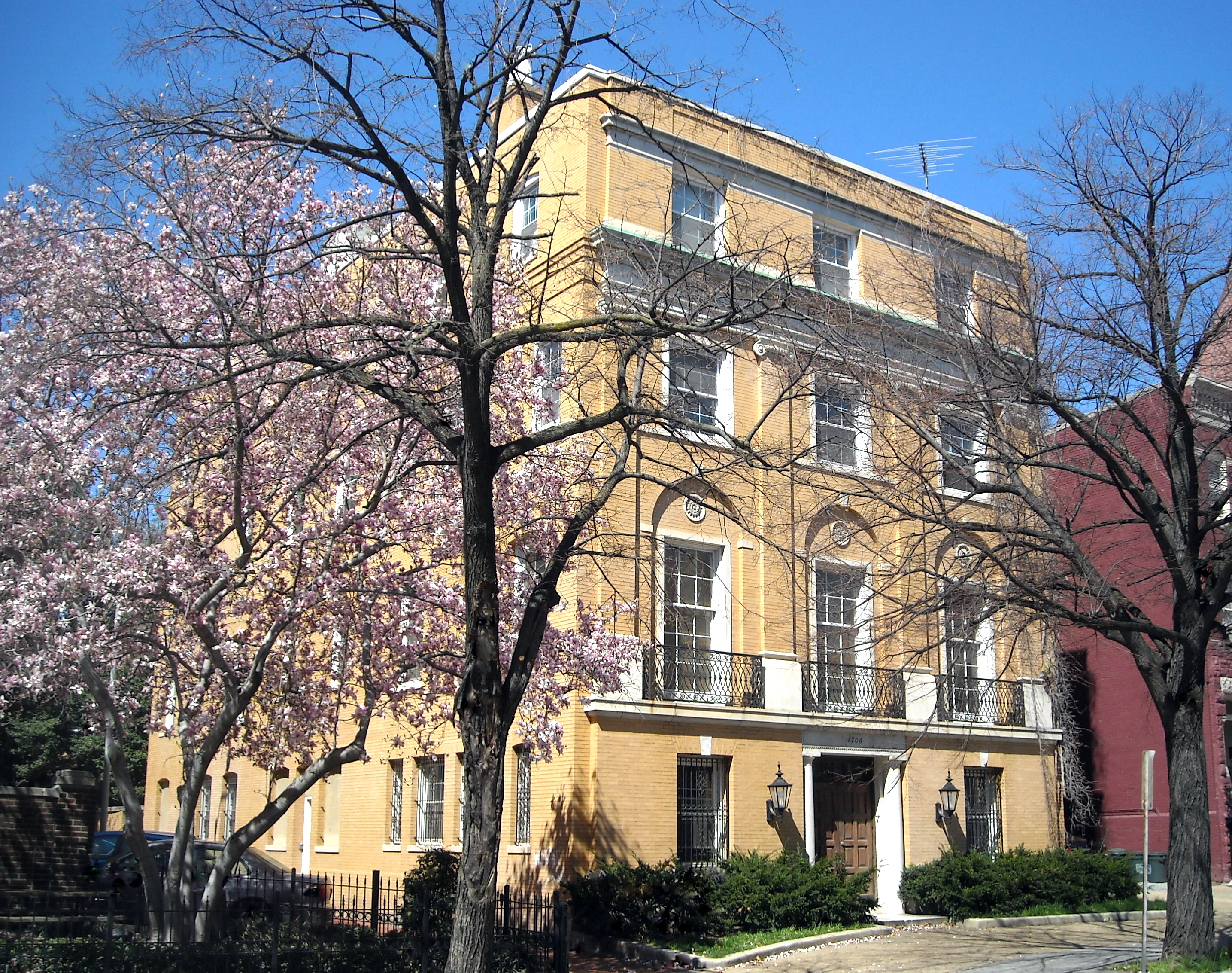 The Russian News & Information Agency offices (also known as RIA Novosti Bureau or Information Office for the Embassy of the Russian Federation; former offices of the propaganda Soviet Life magazine) located at 1706 18th Street NW in the Dupont Circle neighborhood of Washington, D.C. Designed by Jules Henri de Sibour in 1912, the Beaux-Arts building served as the residence of Margaret Cameron (original owner), John W. Weeks, Albert & Mary Lasker, and David A. Reed before its purchase by the Soviet government. The building is a contributing property to the Dupont Circle Historic District.